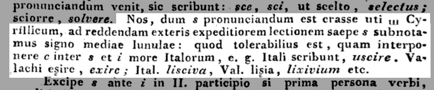 Crop of page 40 highlighting passage introducing s with half moon for the proposed Latin orthography of Romanian in 1825.